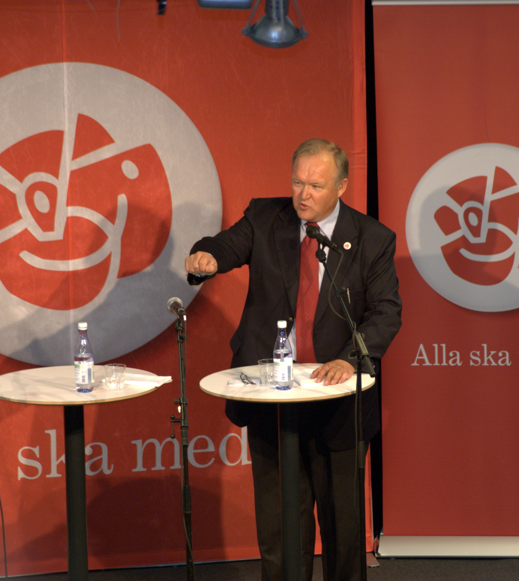 Göran Persson, Prime Minister of Sweden and leader of the Swedish Social Democratic Party. Image taken 5th of September in Gothenburg during the 2006 election campaign.